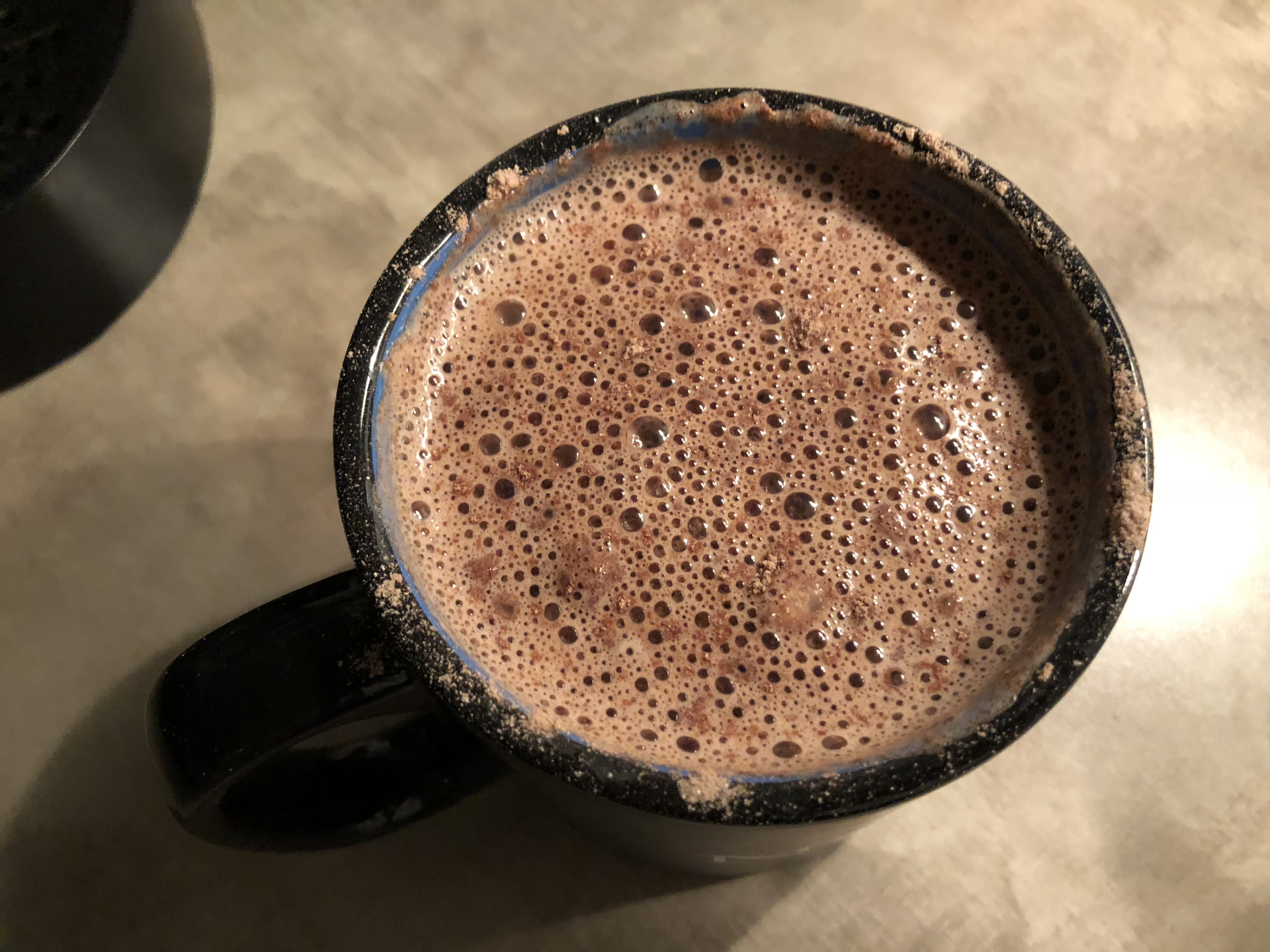 Land O'Lakes Cocoa Classics Chocolate Supreme Hot Chocolate Mix after being mixed with hot water in the Dulles section of Sterling, Loudoun County, Virginia